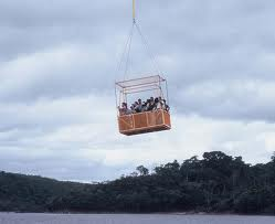 This is an image of a Heli-Basket® taken in Venezuela. This an HB2000 and can hold 15 persons in case of a rescue, and can be used to carry cargo to an area where it is difficult for a helicopter to land.